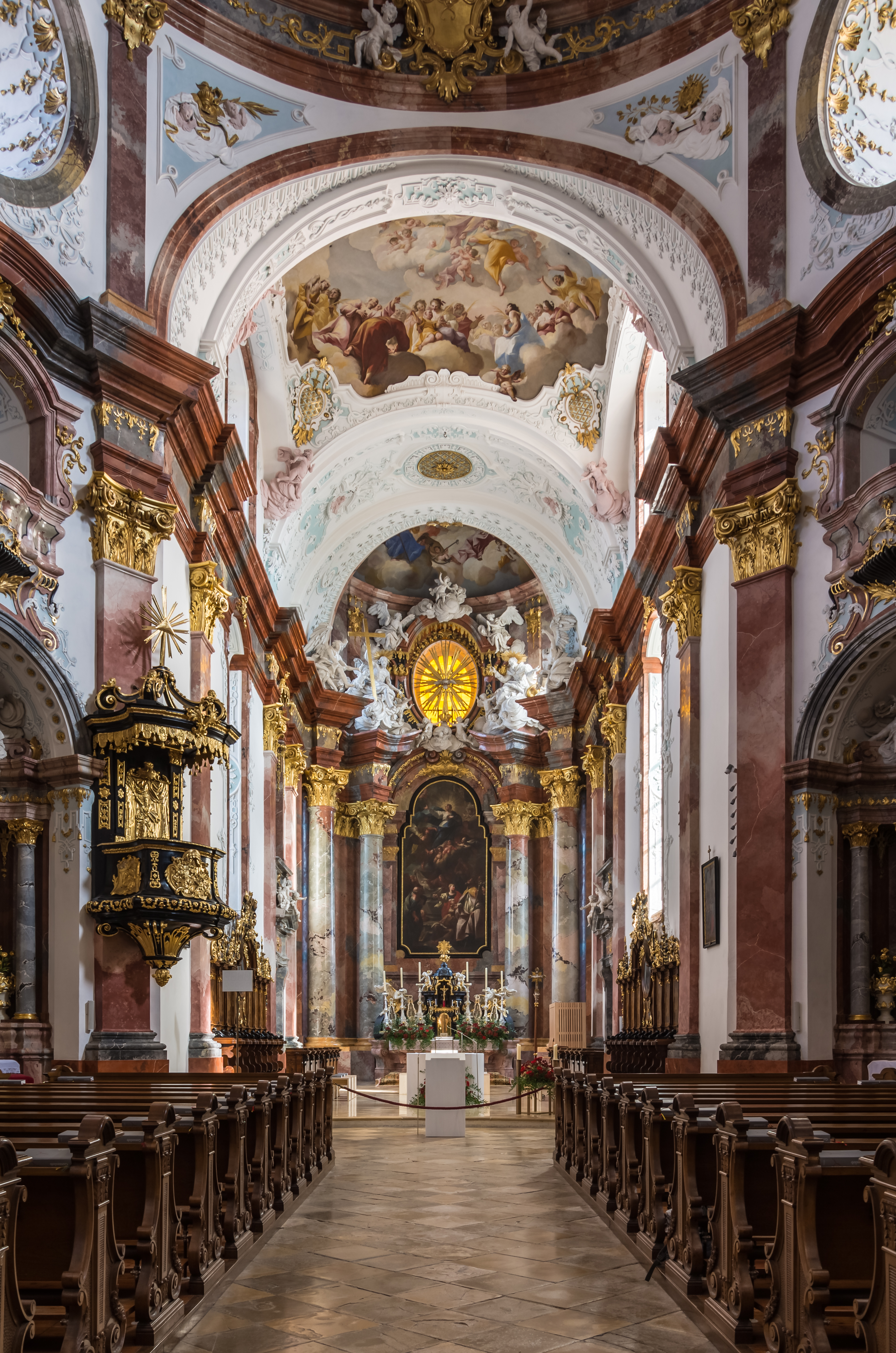 Interior of Altenburg Abbey Church, Lower Austria